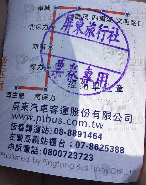 K.P.P. Taiwan PAss, Pingtung Bus Ticket